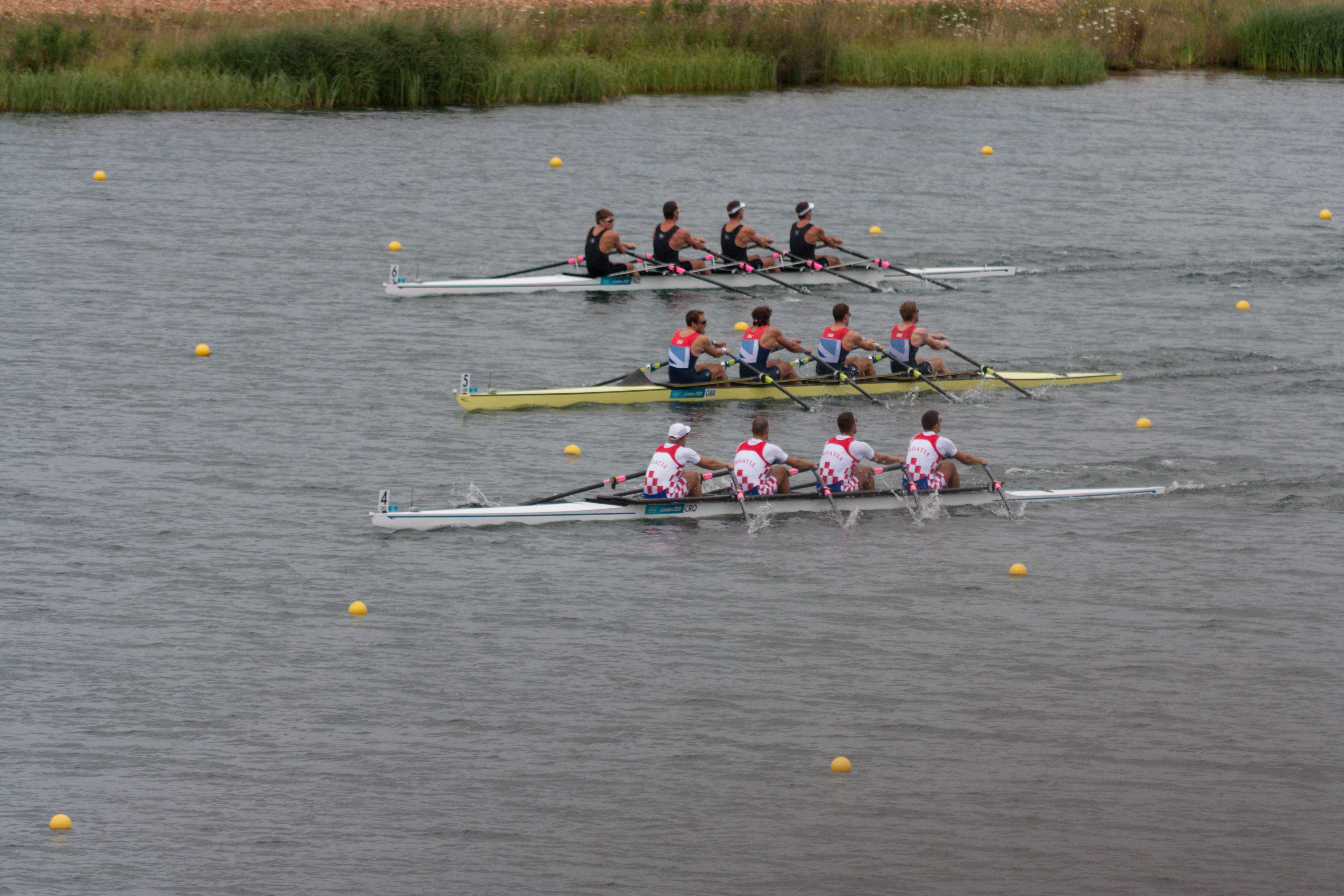 Rowing at the 2012 Summer Olympics – Men's quadruple sculls: Croatia (4), Great Britain (5), New Zealand (6) Details: EF70-300mm f/4-5.6 IS USM at 300 mm with 1/640 sec at f/5.6.